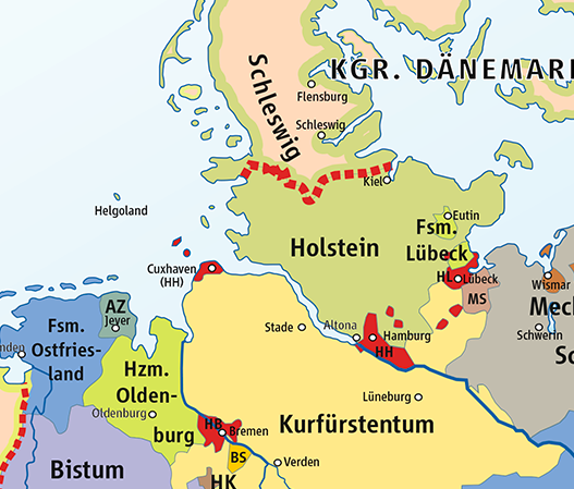 Detail of map of the Holy Roman Empire in 1789, showing Oldenburg and Holstein